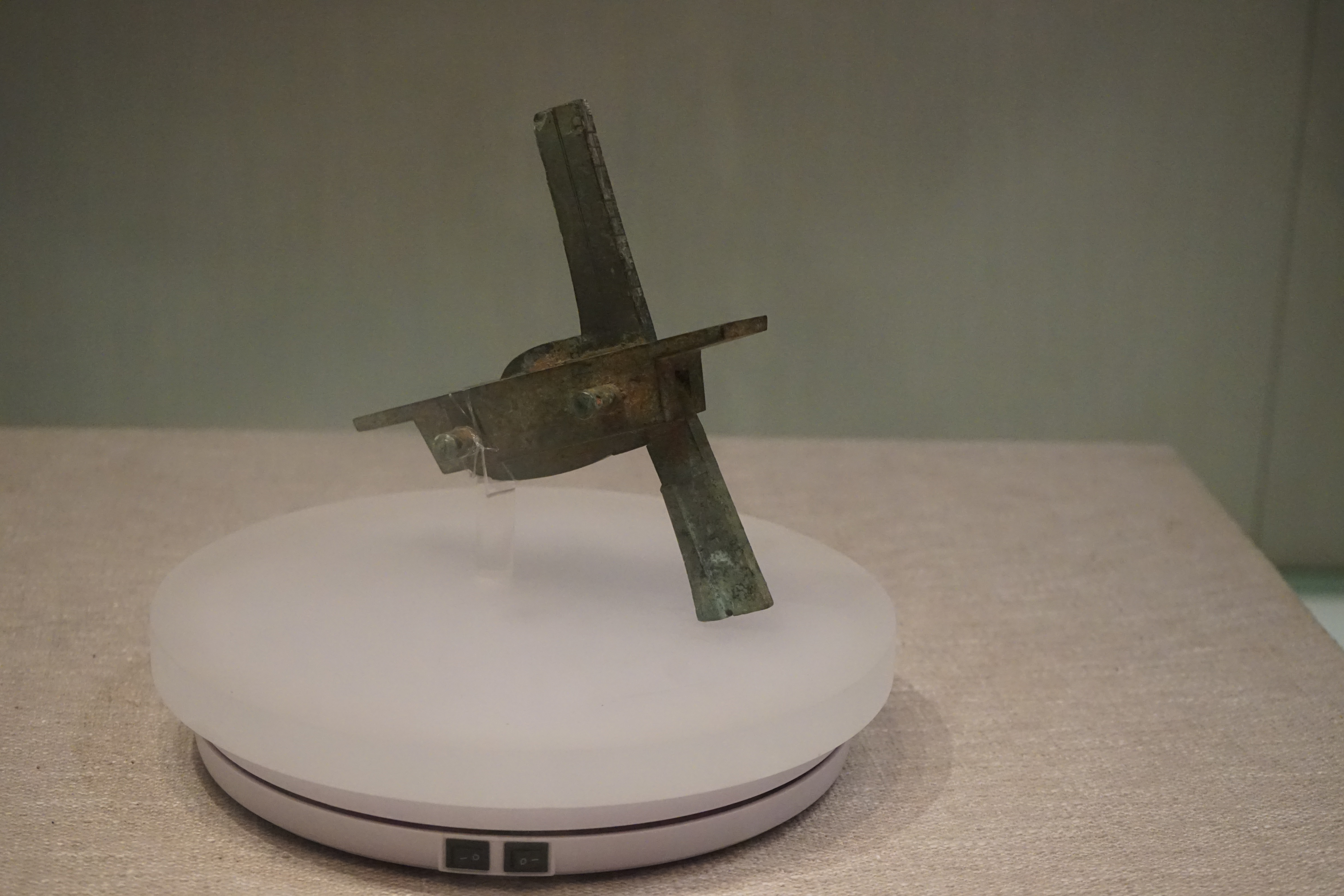 Gold and Silver Inlaid Bronze Crossbow Trigger of General Sun Lin (孙粼将军错金银铜弩机). Wu Kingdom, Three Kingdoms period. Excavated at Ezhou Iron and Steel Co. Beverage Factory (鄂钢饮料厂) in 1991. First Grade Cultural Relic.